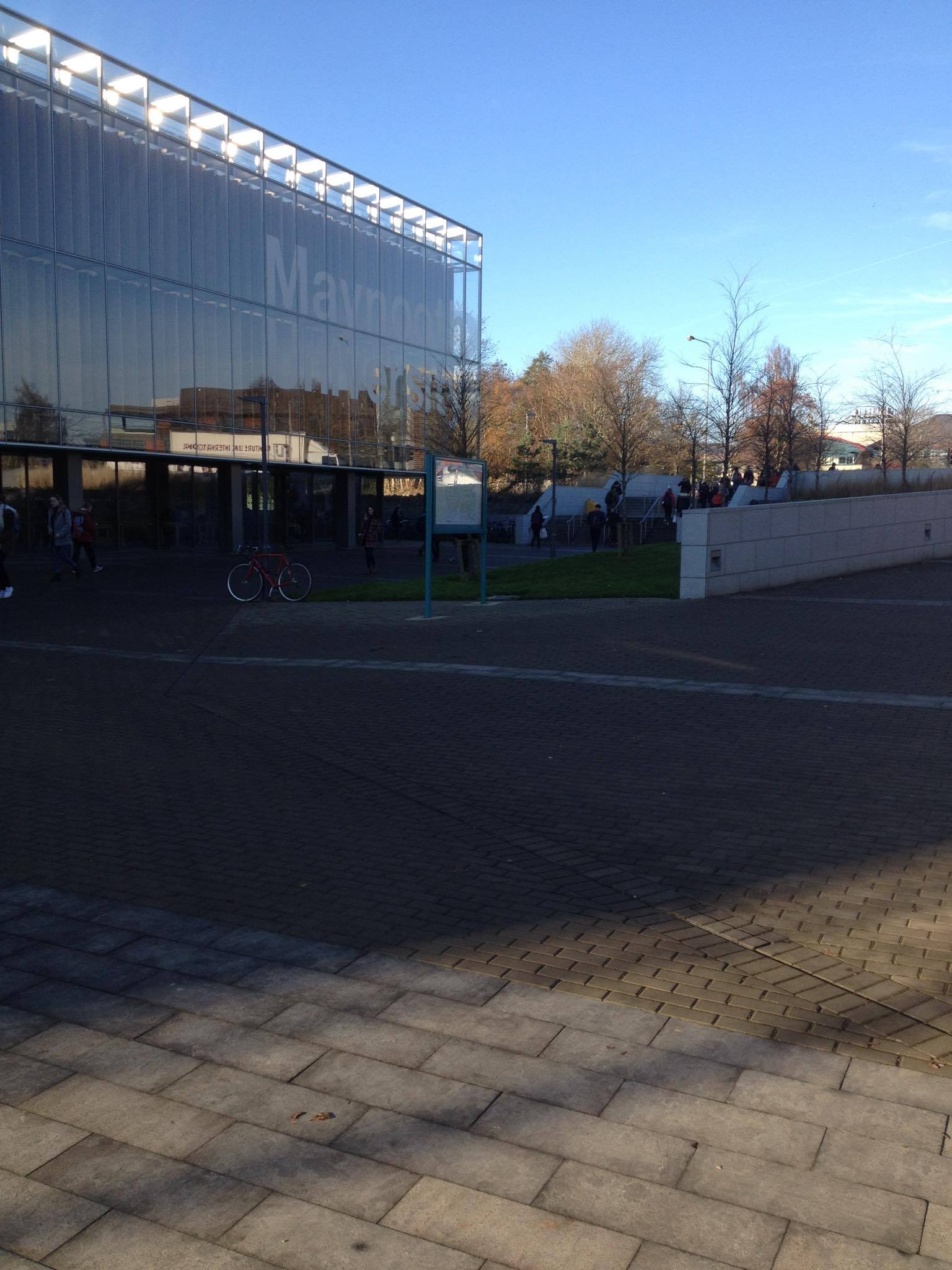 This is an image of Maynooth Univeristy Library.